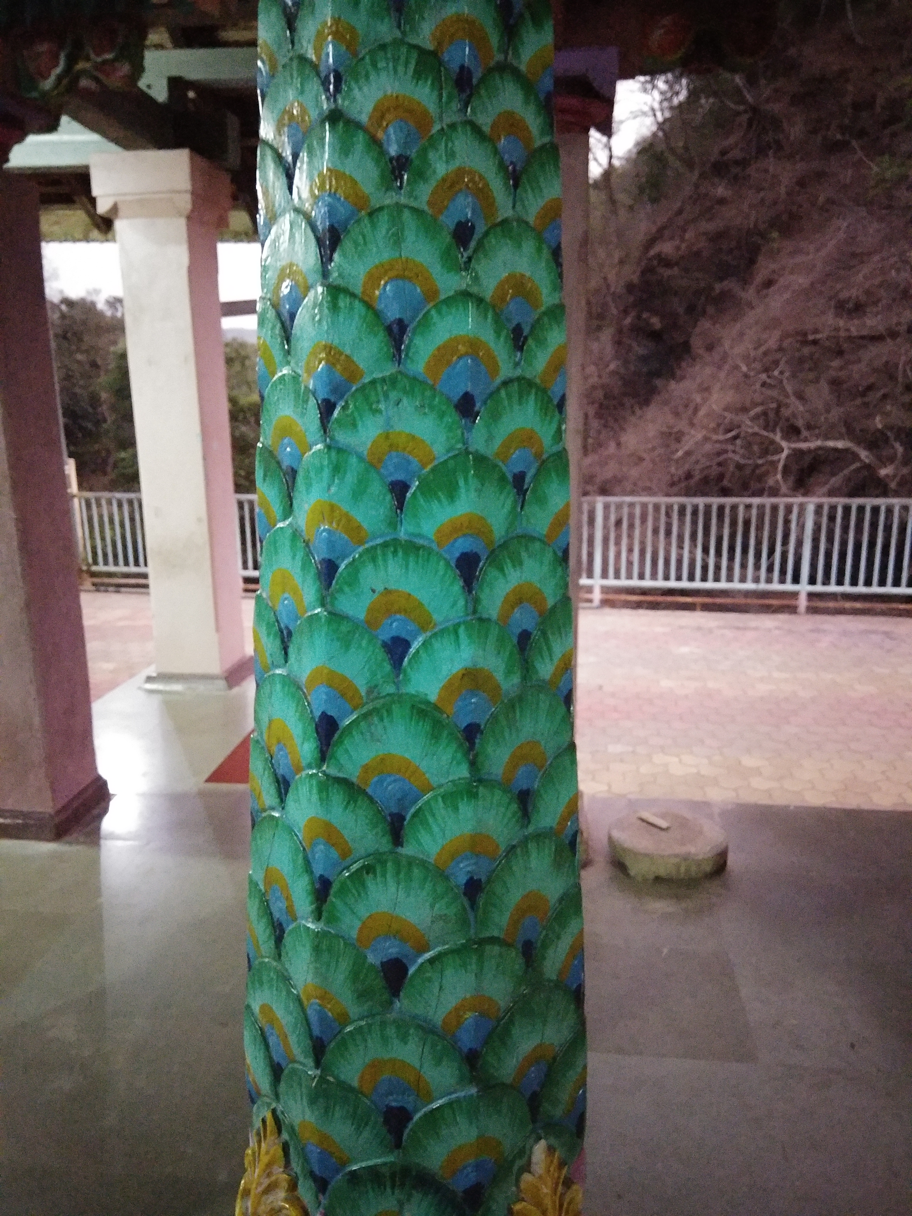 Artistic pillar in Dhootpapeshwar temple